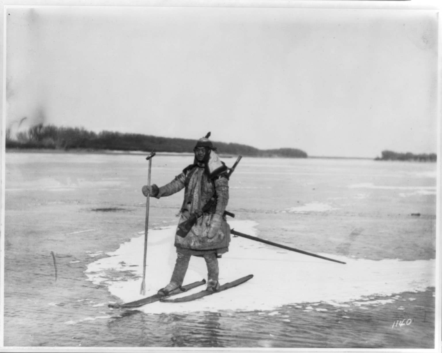 Title: Goldes hunter on skis on ice floe, with spear and rifle Physical description: 1 photographic print : gelatin silver ; 8 x 10 in. or smaller. Notes: Forms part of: Jackson, William Henry, 1843-1942. World's Transportation Commission photograph collection (Library of Congress).; Gift; Colorado Historical Society; 1949.; Photographic print made by LC from Jackson's vintage film negative.